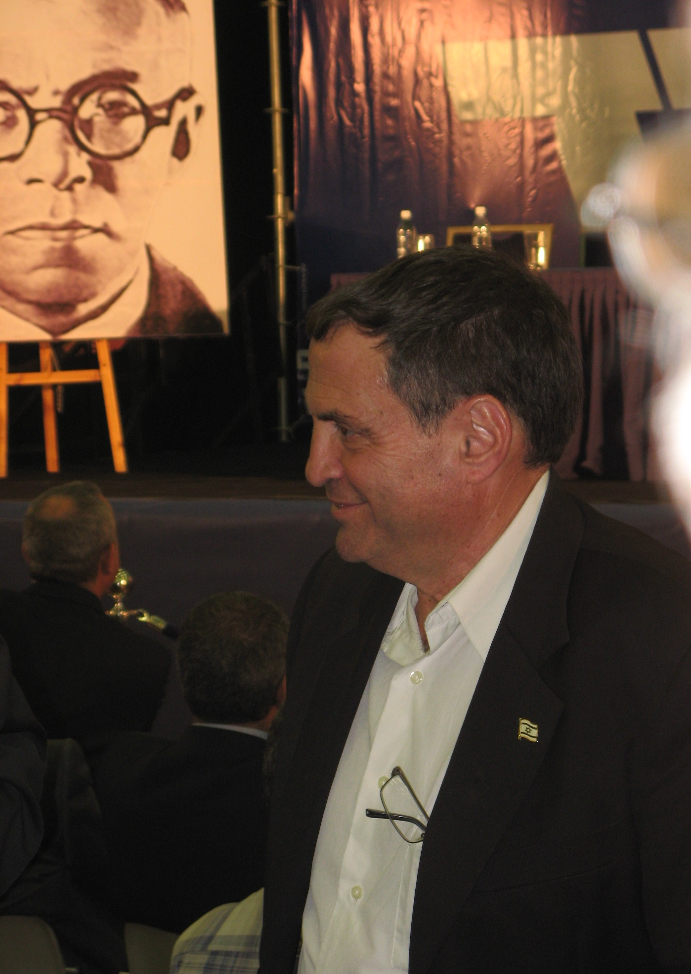 Uzi Dayan at Merkaz Likud. In the backround is the picture of z'abotinsky